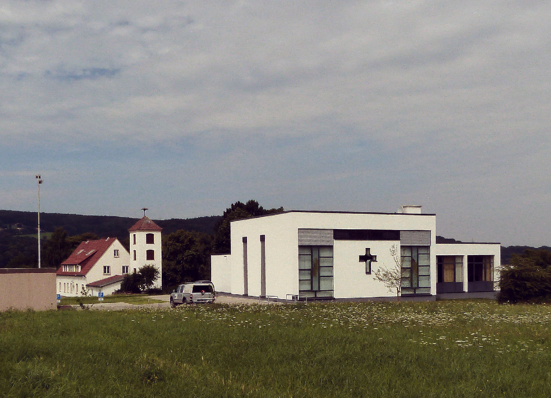 he new Zachäus community centre of the church municipality Uffeln (Vlotho) - to the left of it device house and tube tower of the fire-fighting team Uffeln in Vlotho.